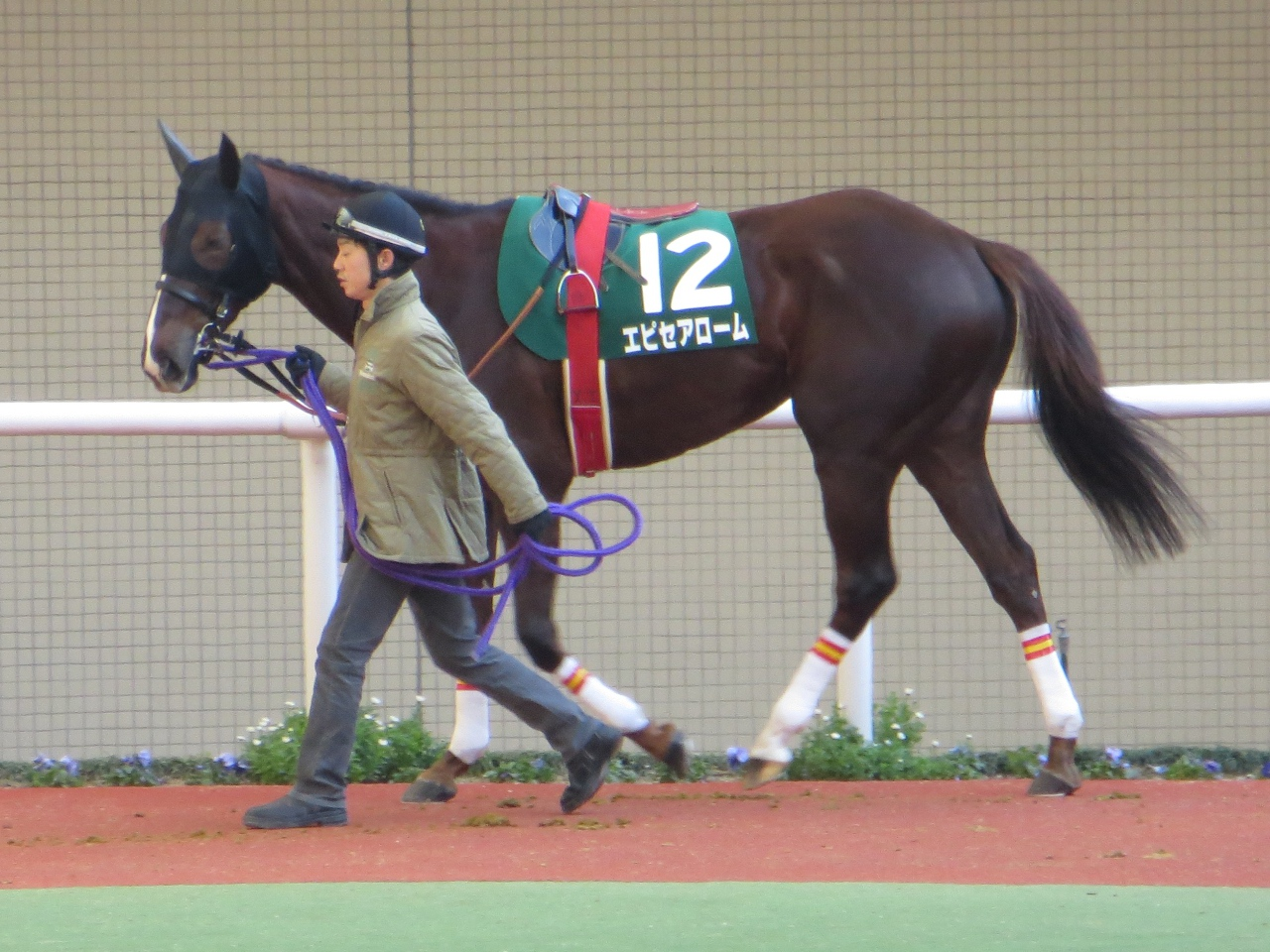 Epice Arome (Japanese race horse) in 57th Hankyu hai (Hanshin Racecourse).